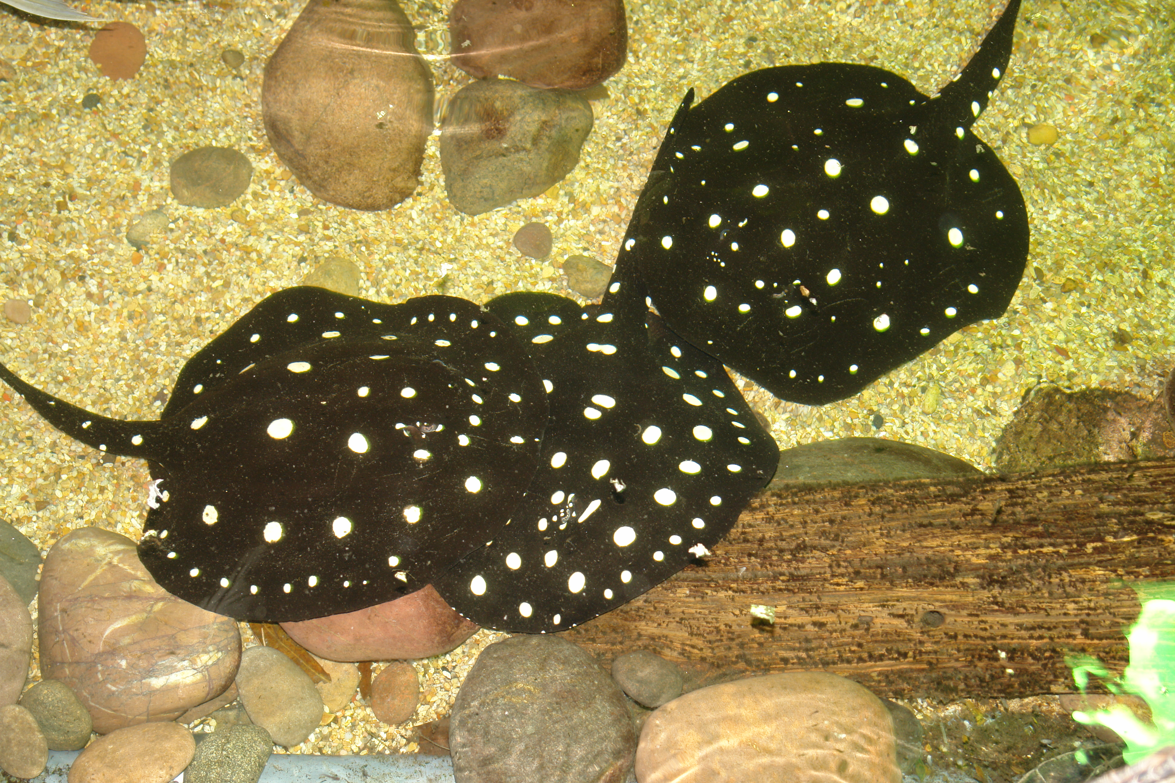 Yellow-spotted black Amazon stingray (Potamotrygon leopoldi), AKA Polka dot ray. Taken 2/18/07 at the Dallas World Aquarium in Dallas, TX by Michael-David Bradford